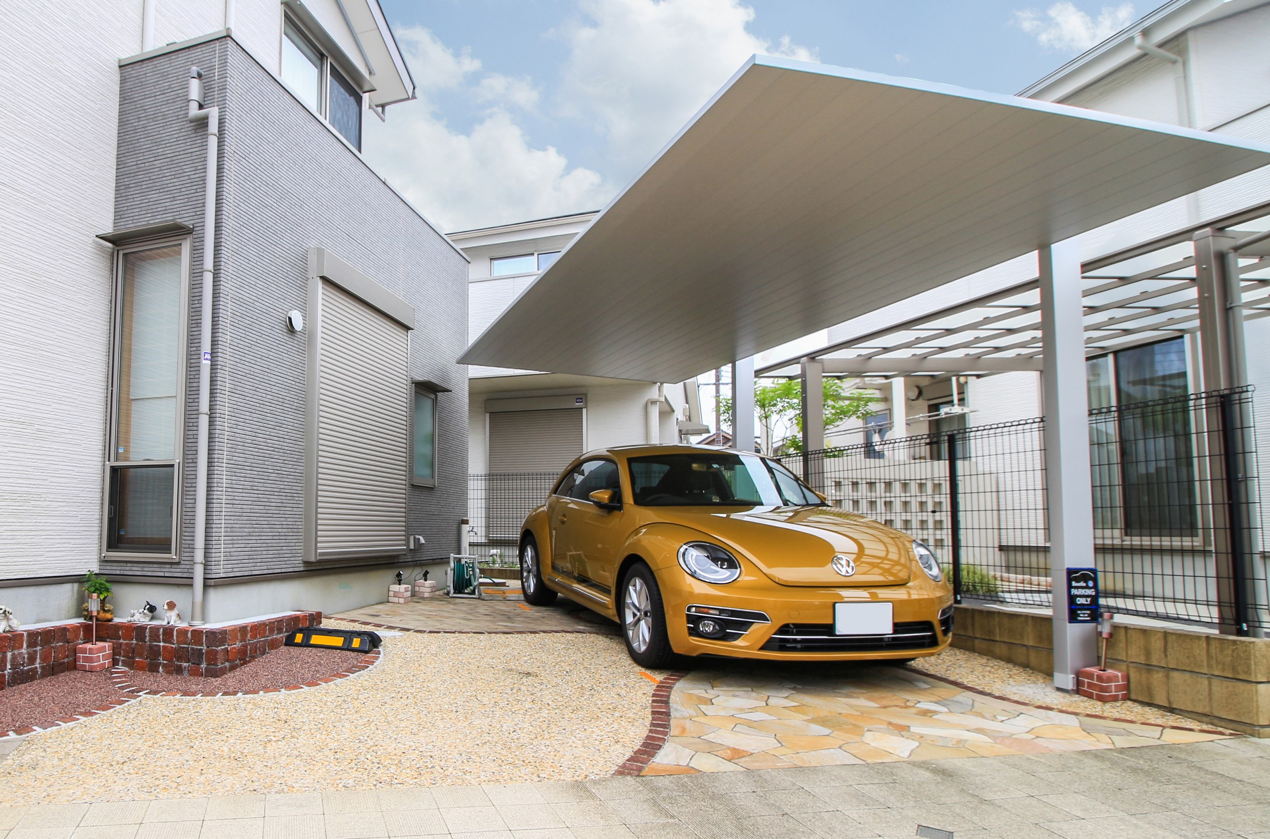 2018-Carport in Japan Himawari Life Co., Ltd.